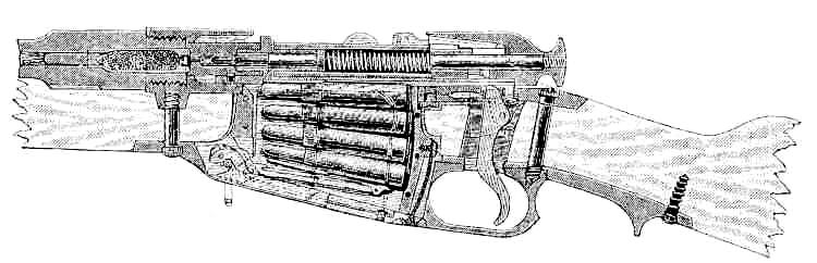 Rifles in 1905